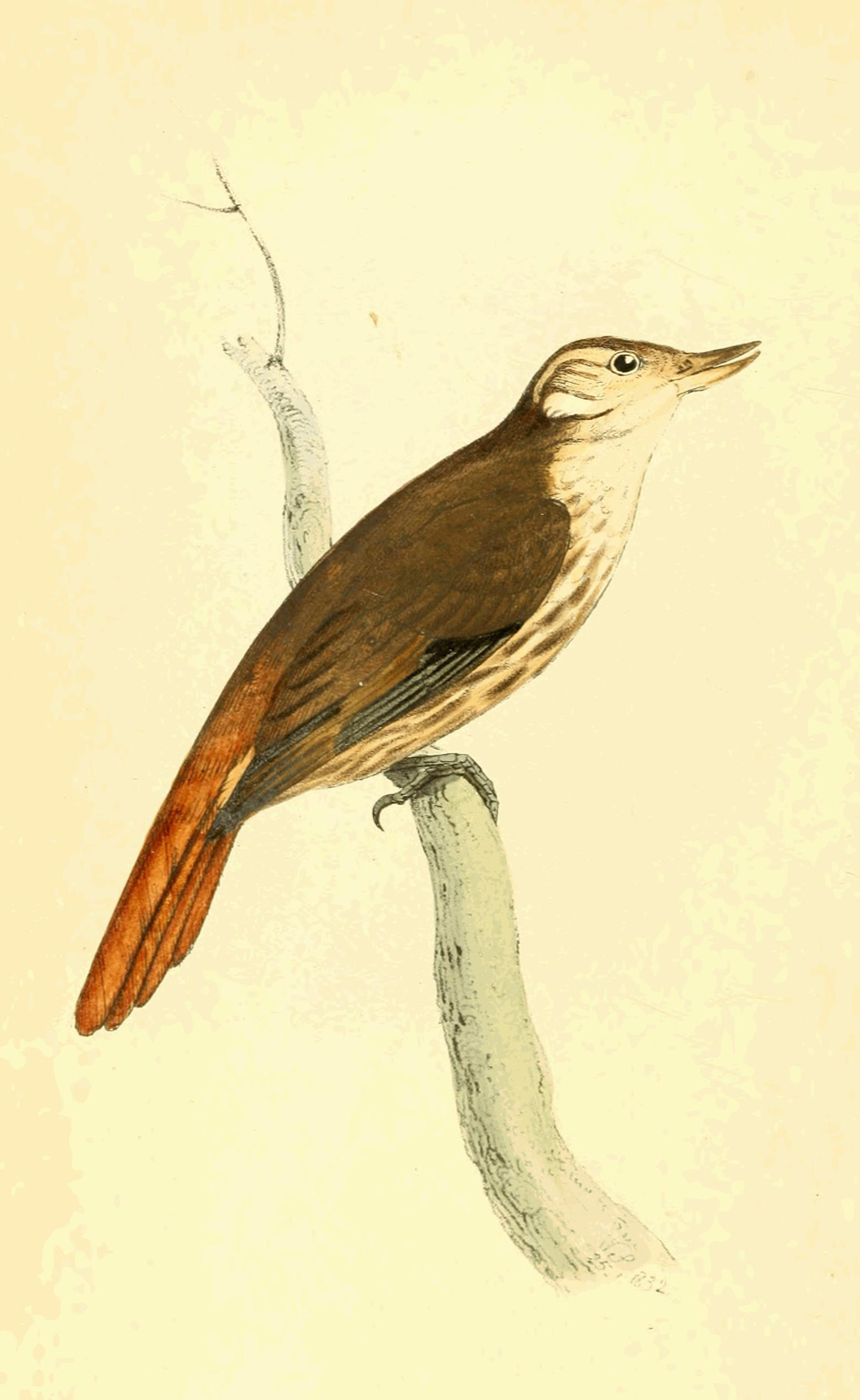 Plate 100. Xenops genibarbis. Whiskered Xenops. Modern accepted name (2012) is X. rutilans[1].